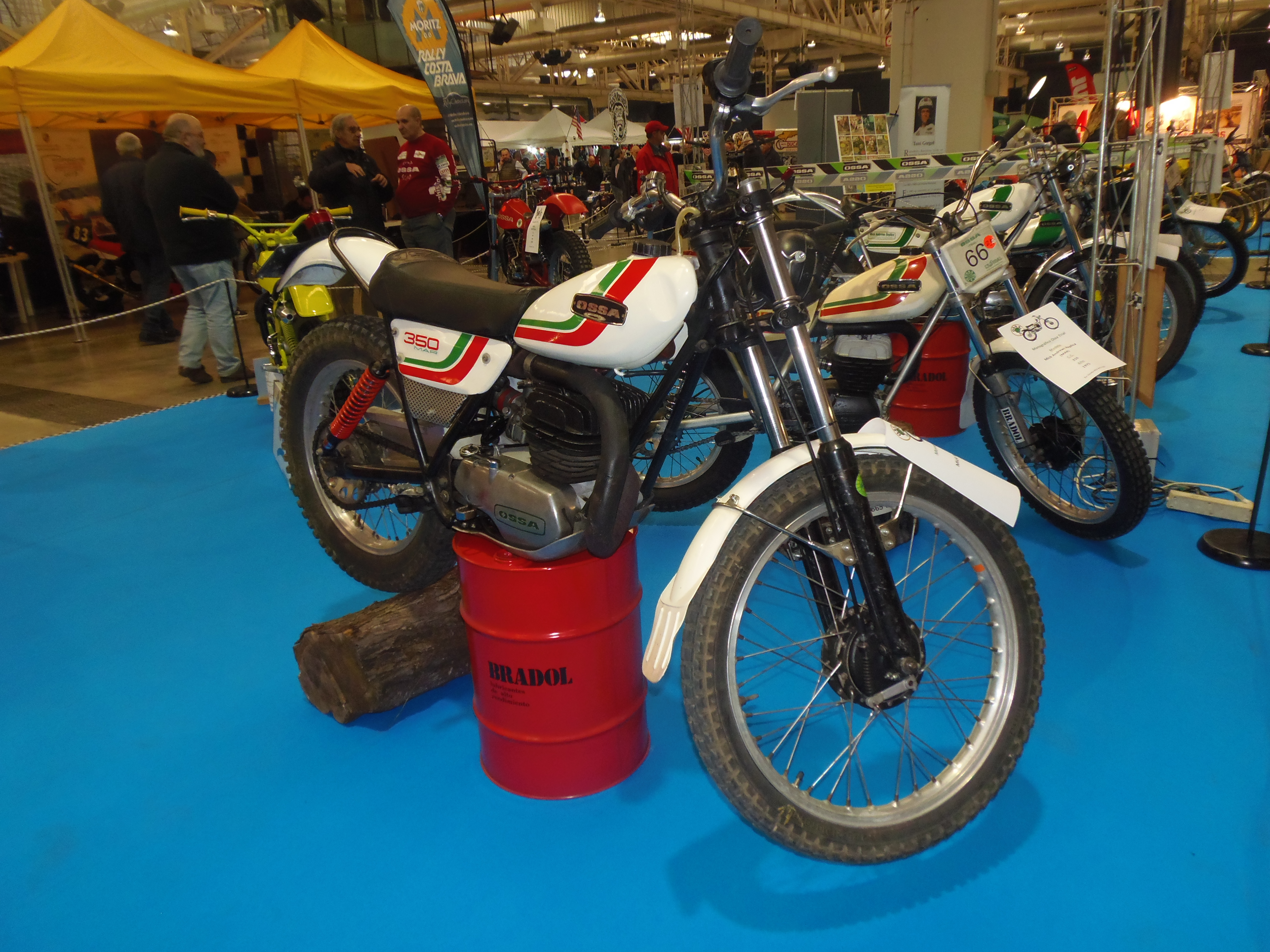 OSSA MAR 350, 1976